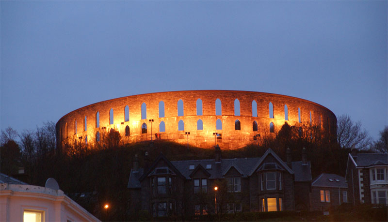 McCaig's Tower, Oban, Scotland